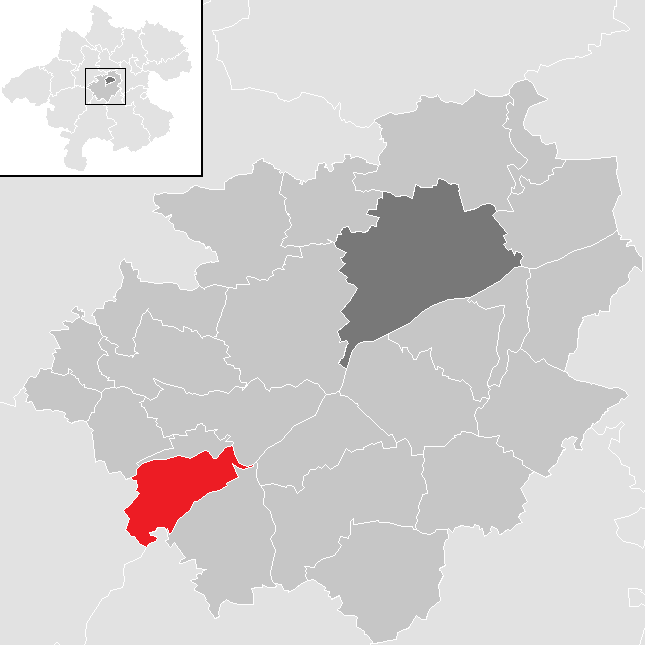 District Wels-Land